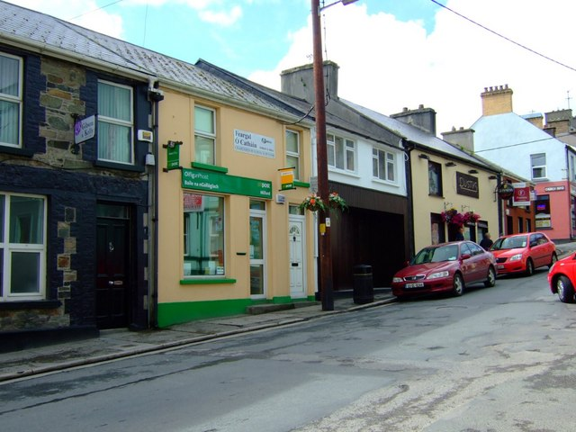 Main Street, Milford The Post office on Main Street